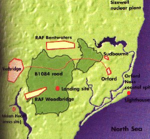 Source: Earlier version of map was in public domain. I have done a quick edit to move the lighthouse to correct position (cf OS map)